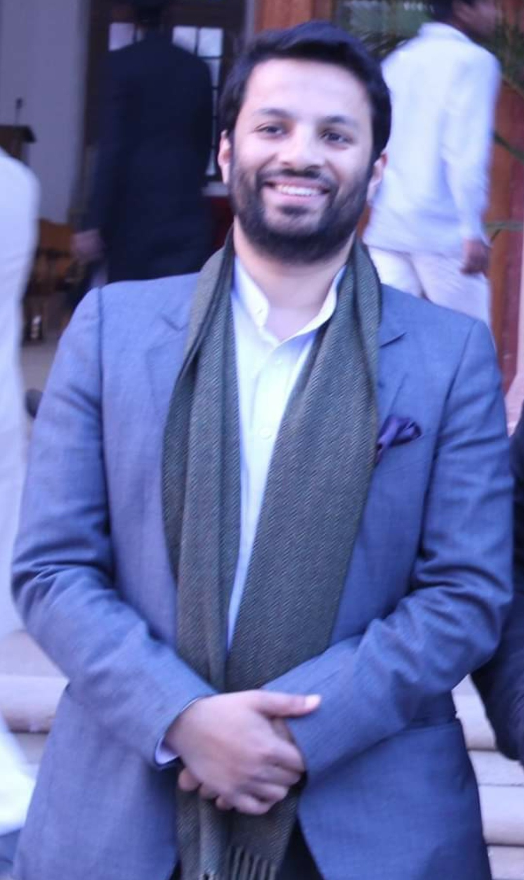 Ali Khan Mahmudabad at John Strachey Hall, Aligarh Muslim University, Aligarh in February, 2018